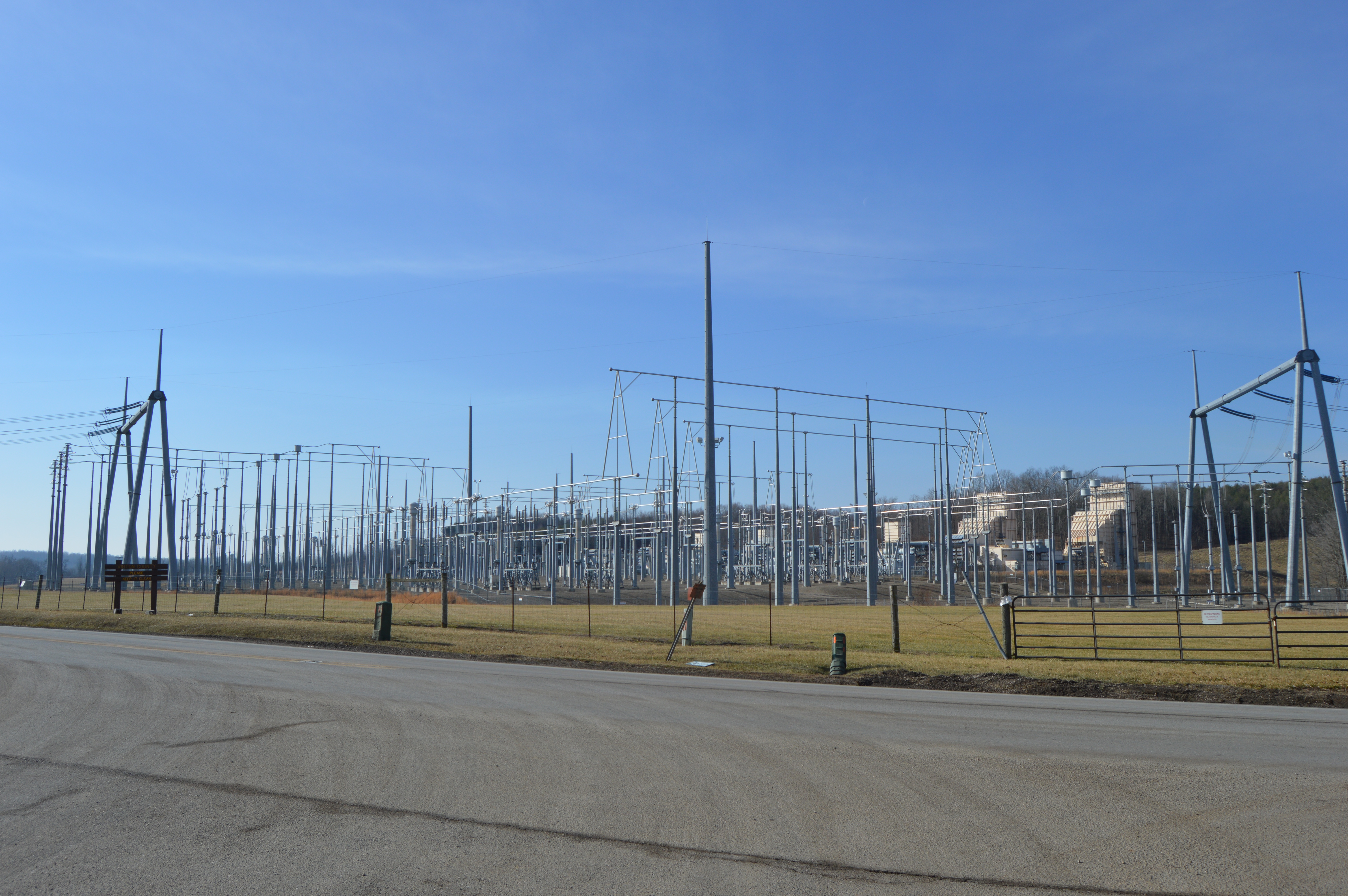 Overview of Flatlick substation (foreground) and the Rolling Hills Generating Station (background), a gas-fired American Electric Power station that operates during periods of peak demand that would otherwise risk overloading normal power stations. Photo looks southwest from the junction of State Routes 160 and 689 north of Wilkesville in Wilkesville Township, Vinton County, Ohio, United States.